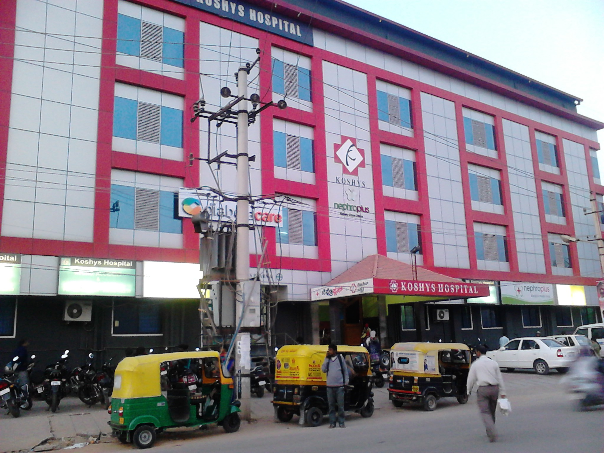 Hospital